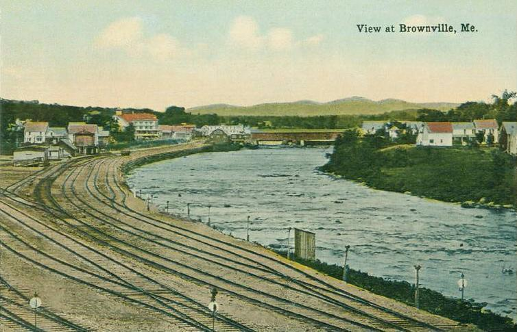 View at Brownville, Maine, USA. This shows the Bangor & Aroostook Railroad yard.